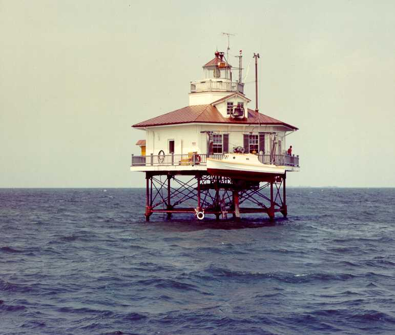 Holland Island lighthouses, Maryland. Photo predates the lighthouse's destruction in 1960.